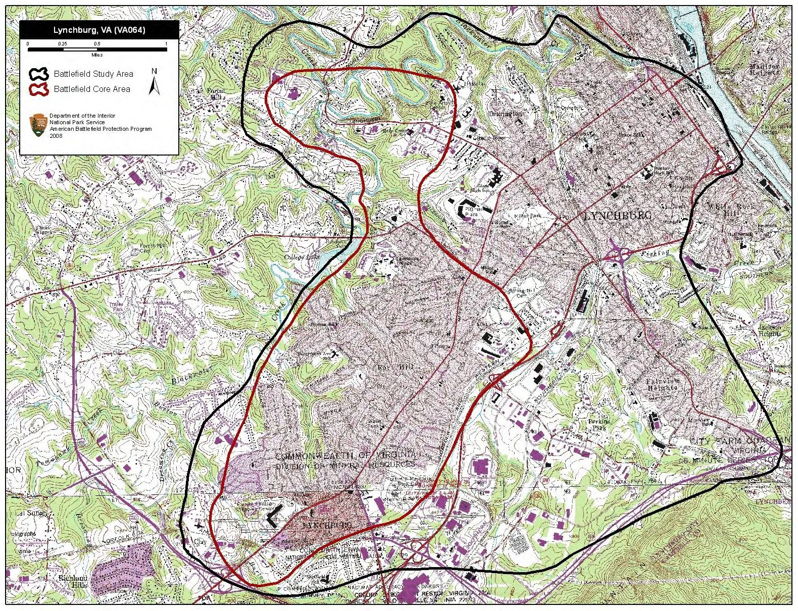 Map of battlefield core and study areas.